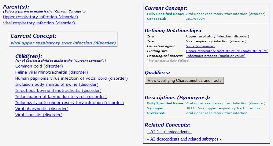 Example of a defined concept in SNOMED. Screenshot from the VETMED SNOMED browser.